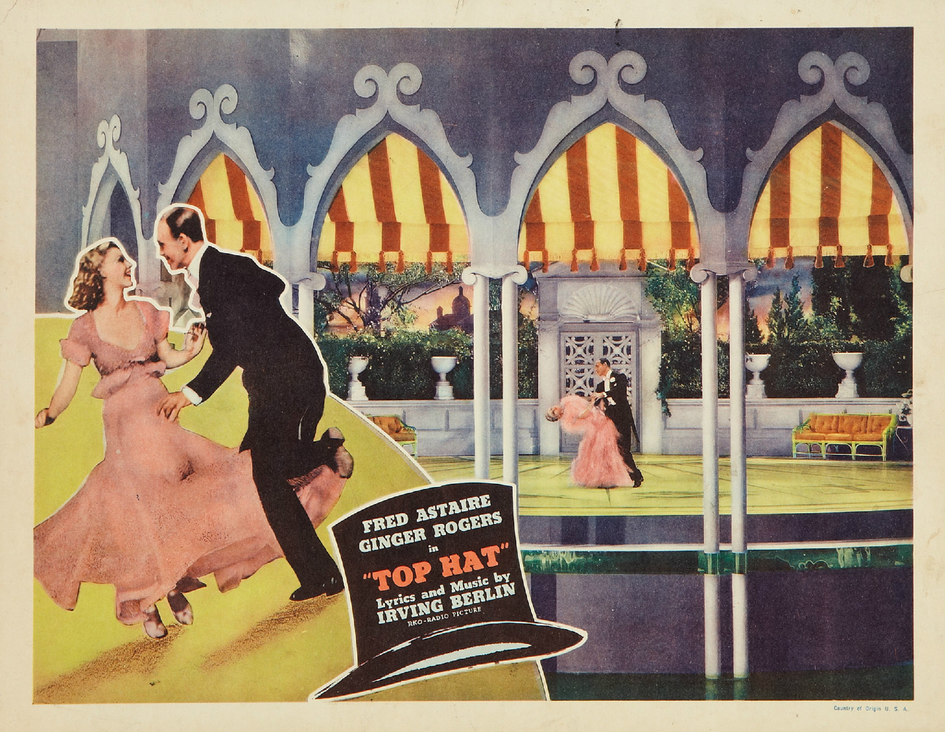 Lobby card for the 1935 film Top Hat.